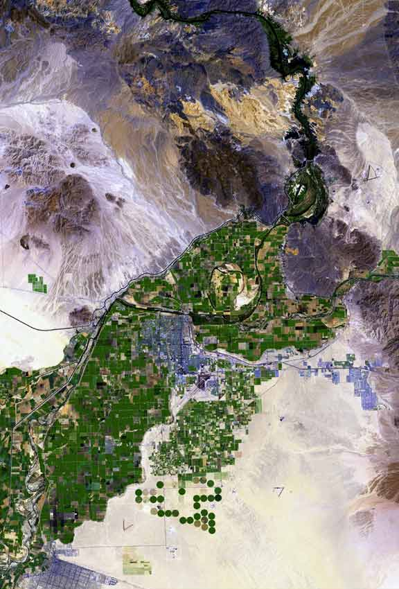 The raw satellite imagery shown in these images was obtained from NASA and/or the US Geological Survey. Post-processing and production by Colorado River is the border between California, (top, and left), and Arizona, (bottom, and right). The Yuma Desert is shown quite prominently, south of Yuma, and the Fortuna Foothills, at the west of the Gila Mountains (Yuma County). The Yuma Desert is at the northwest of the Picacho Volcanic field complex, and the great: Gran Desierto de Altar, of north and northwest, Sonora state Mexico. (Note the Alluvial fans, especially around the Cargo Muchacho Mountains of California, but throughout the photo.)